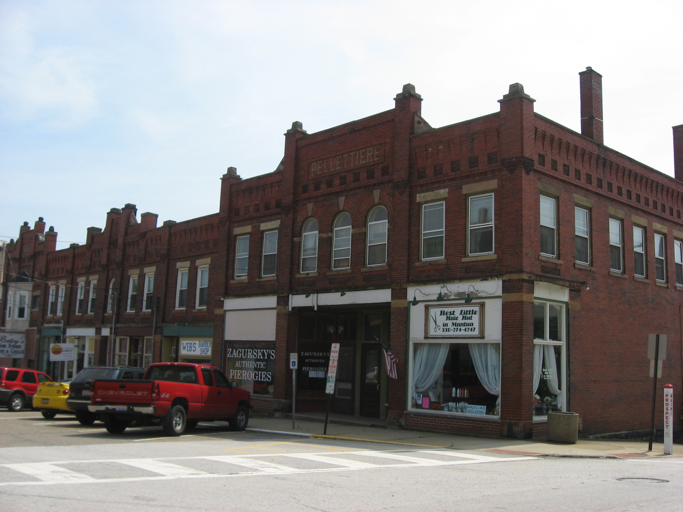 View of buildings in the Mantua Station Brick Commercial District, a National Register of Historic Places district in central Mantua, Ohio, United States. Buildings are located along East Prospect Street at its intersection with Main Street (State Route 44), from which street the picture is taken.